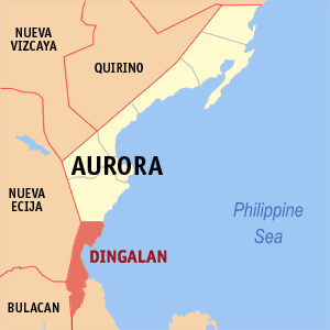 Map of Aurora showing the location of Dingalan